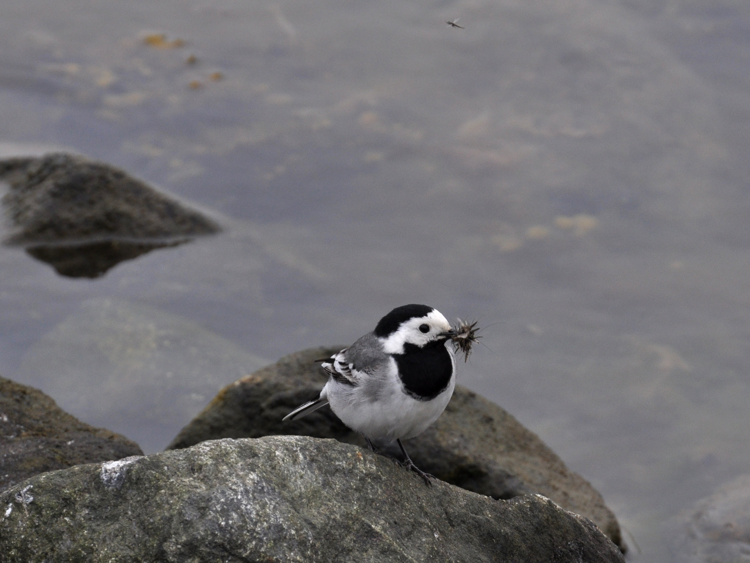 White Wagtail with many captured insects in Heiligenhafen